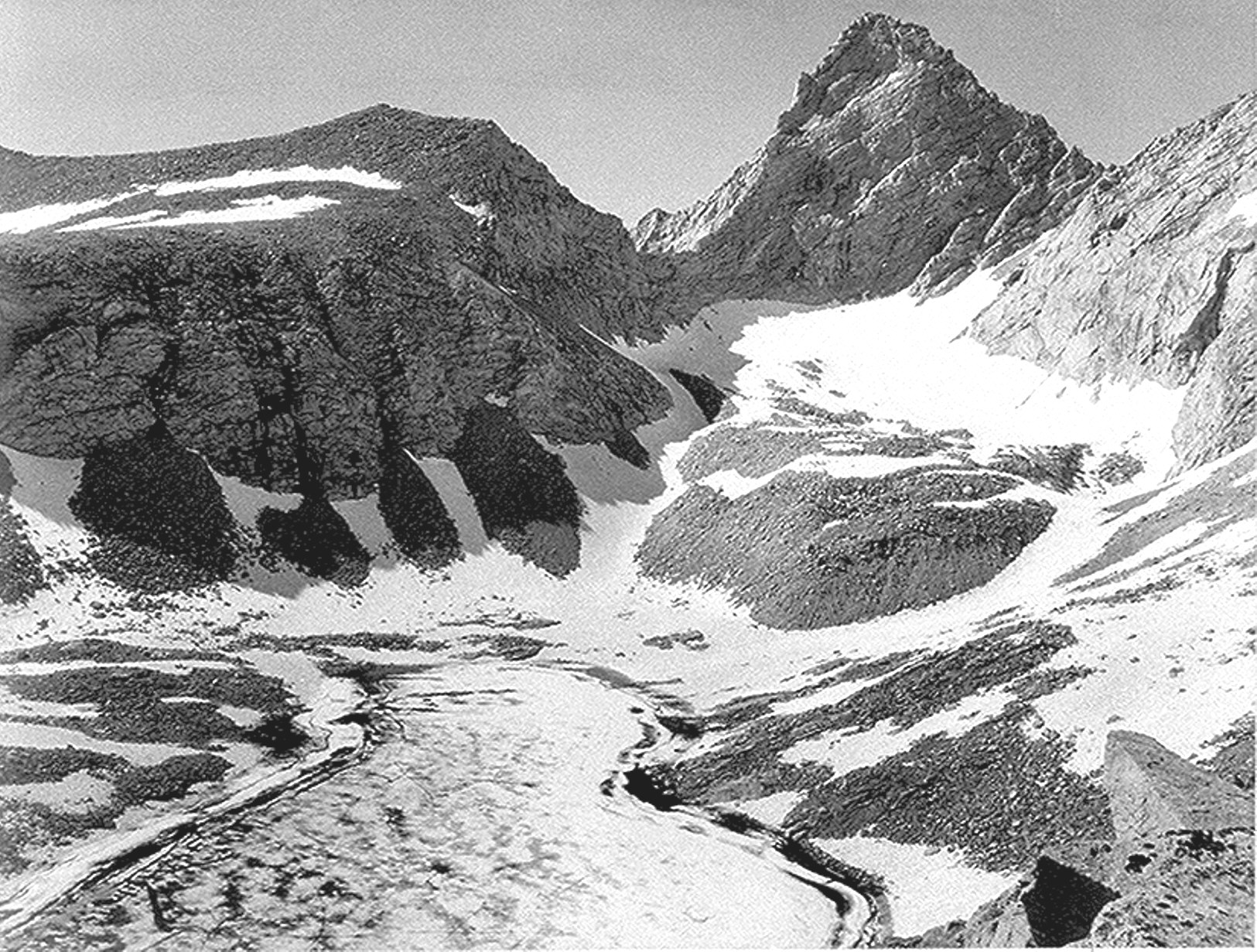 79-AAH-11 "Junction Peak." Kings Canyon circa 1930s